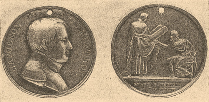 Illustration from Brockhaus and Efron Jewish Encyclopedia (1906—1913)